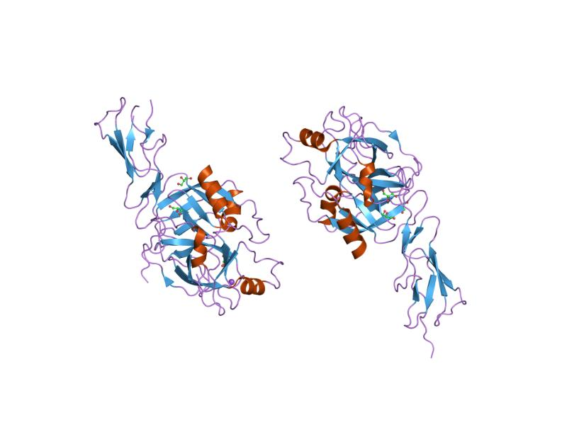 Cartoon representation of the molecular structure of protein registered with 1q3x code.